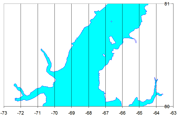 Map of the Nares Strait (Kennedy Channel). Prepared from Digital Chart of the World (DCW) data. Latitudes are North, longitudes are East (hence negative). The latitude 80° 30' parallel is to scale. To the West is Ellesmere Island, to the East, Greenland. The islands in the middle are, from South to North: Crozier, Franklin, and the disputed Hans Island.